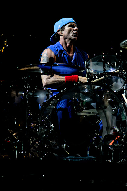 Chad Smith performing with Red Hot Chili Peppers at the Prudential Center in Newark on May 4, 2012